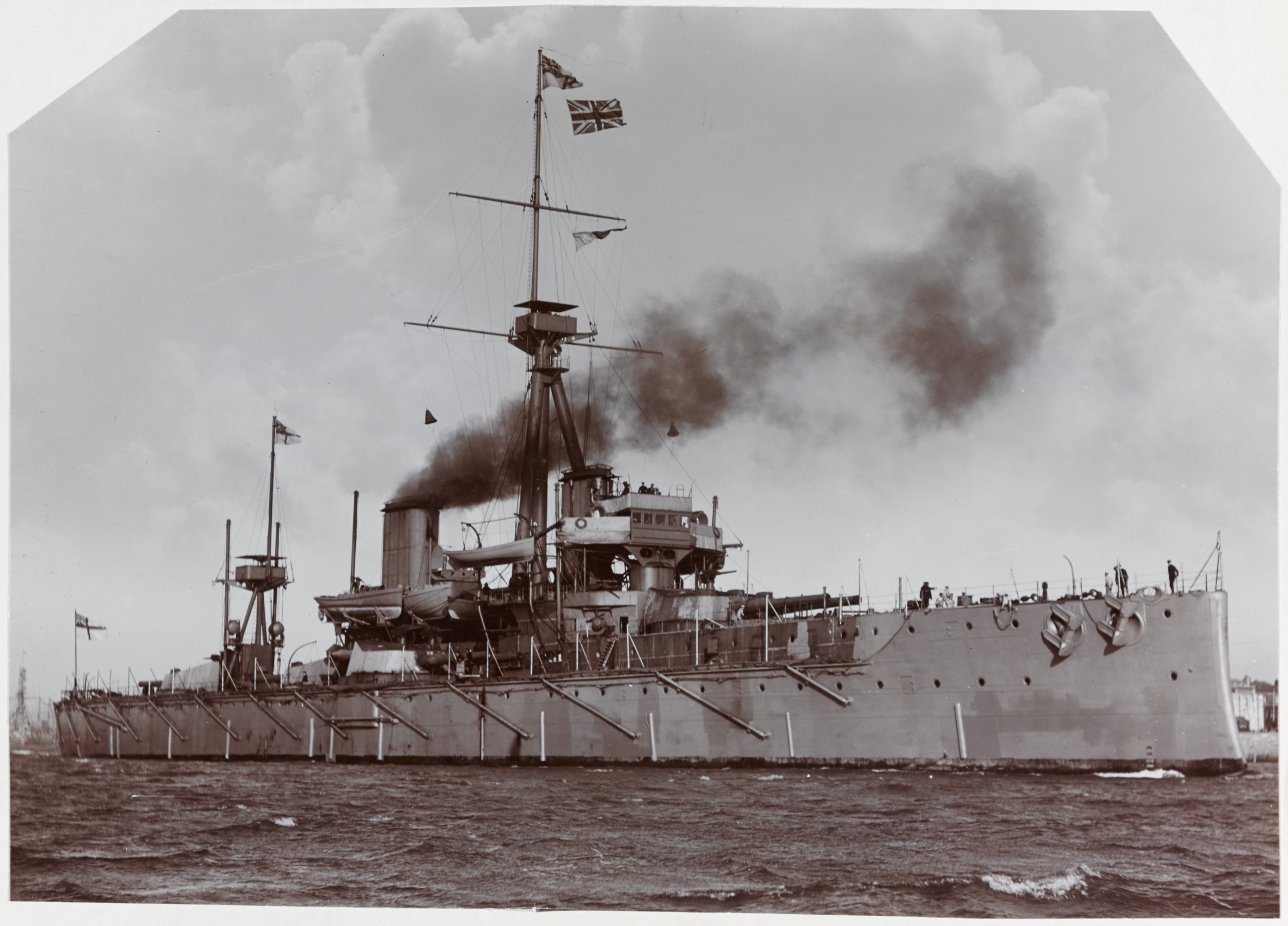 Photograph of British battleship HMS Dreadnought In harbor, with flags flying from both masts and from the sternpost, circa 1906-07. Removed caption read: Photo # NH 63367 HMS Dreadnought (British battleship, 1906).